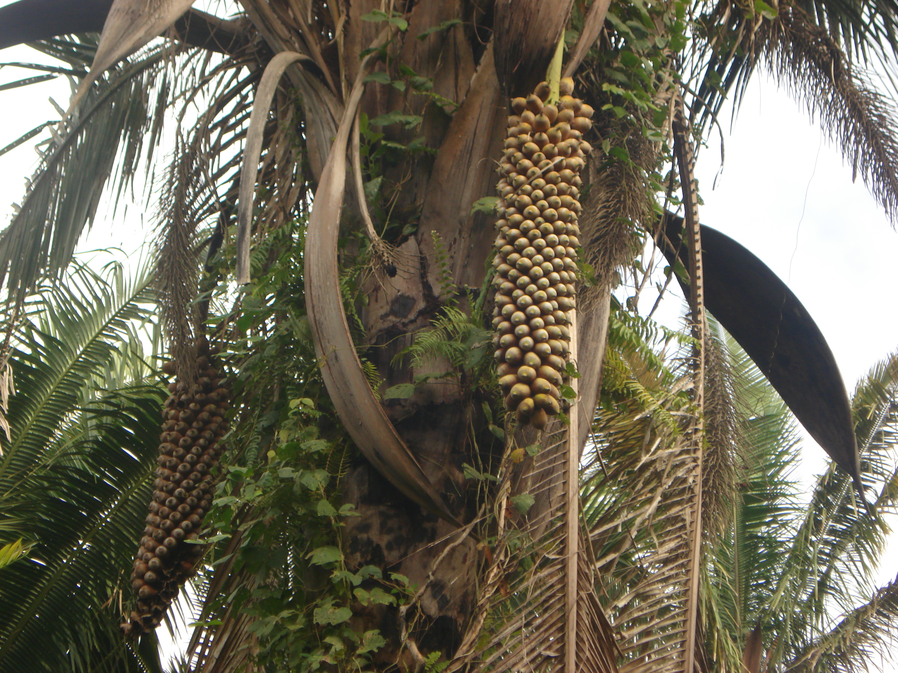 Babaçu/babassu (Attalea speciosa) - Itapecuru-Mirim, Maranhão state, Brazil